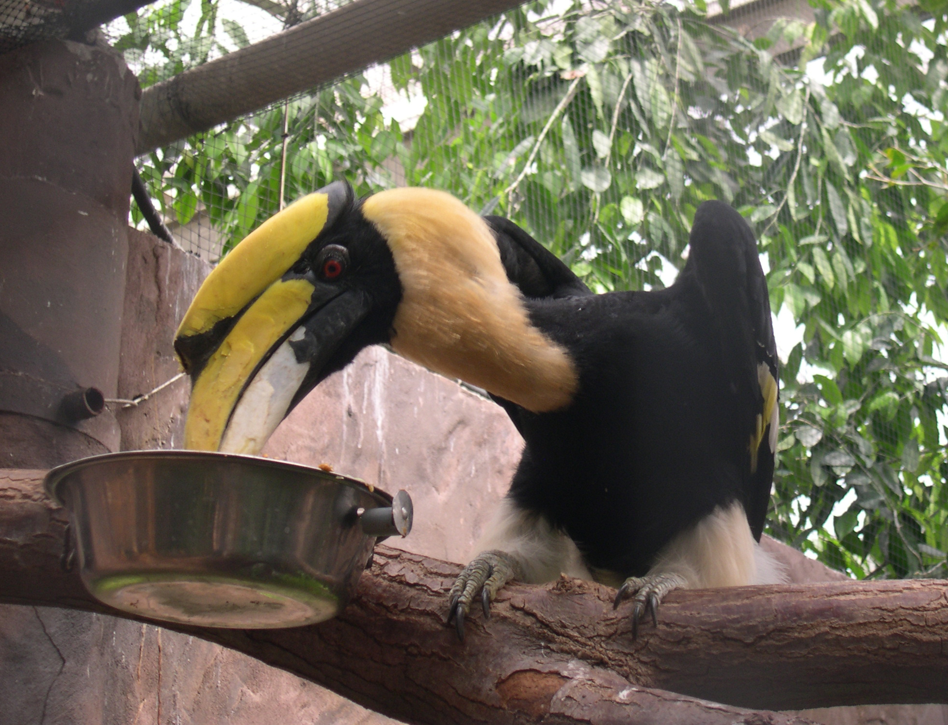 Buceros bicornis in Diergaarde Blijdorp, Rotterdam Picture by Magalhães on July 1st 2006